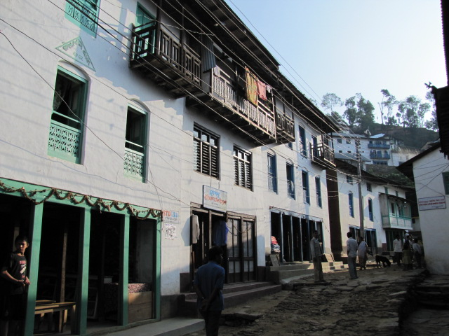 Bojpur, Nepal